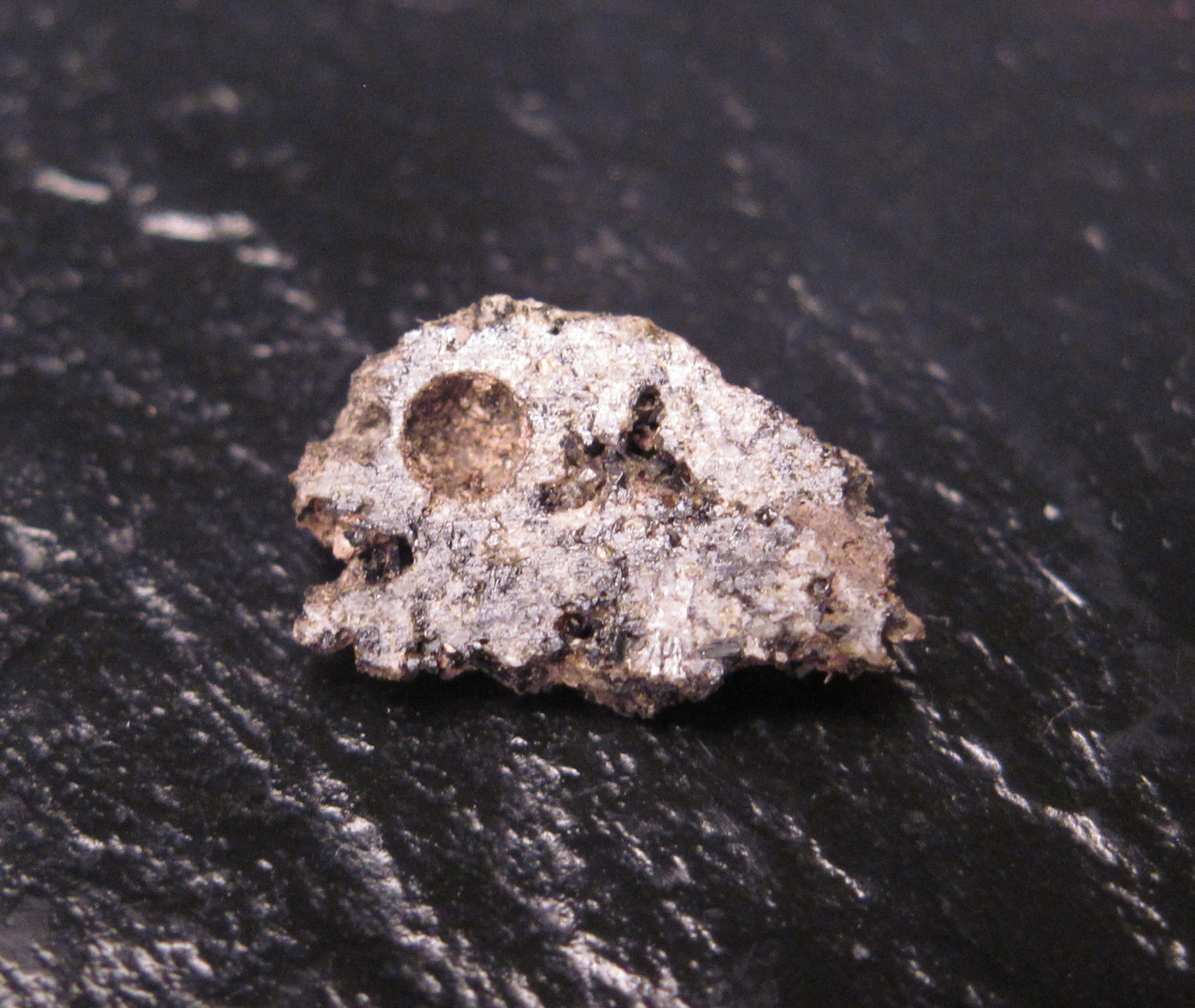 This rare angrite was discovered by a farmer plowing a corn field in July 1979 in Buenos Aires, Argentina. The unusual stone was originally thought to be an Indian artifact and it remained on the farm for nearly 20 years before speculation arose that it might in fact be a meteorite. Confirmation of it's extraterrestrial status was finally achieved in 2000 after a sample was analyzed in Vienna. The 16.55 kg meteorite was determined to be an exceedingly rare achondrite known as an angrite. D'Orbigny is characterized by prominent vesicles which are rarely seen in meteorites.